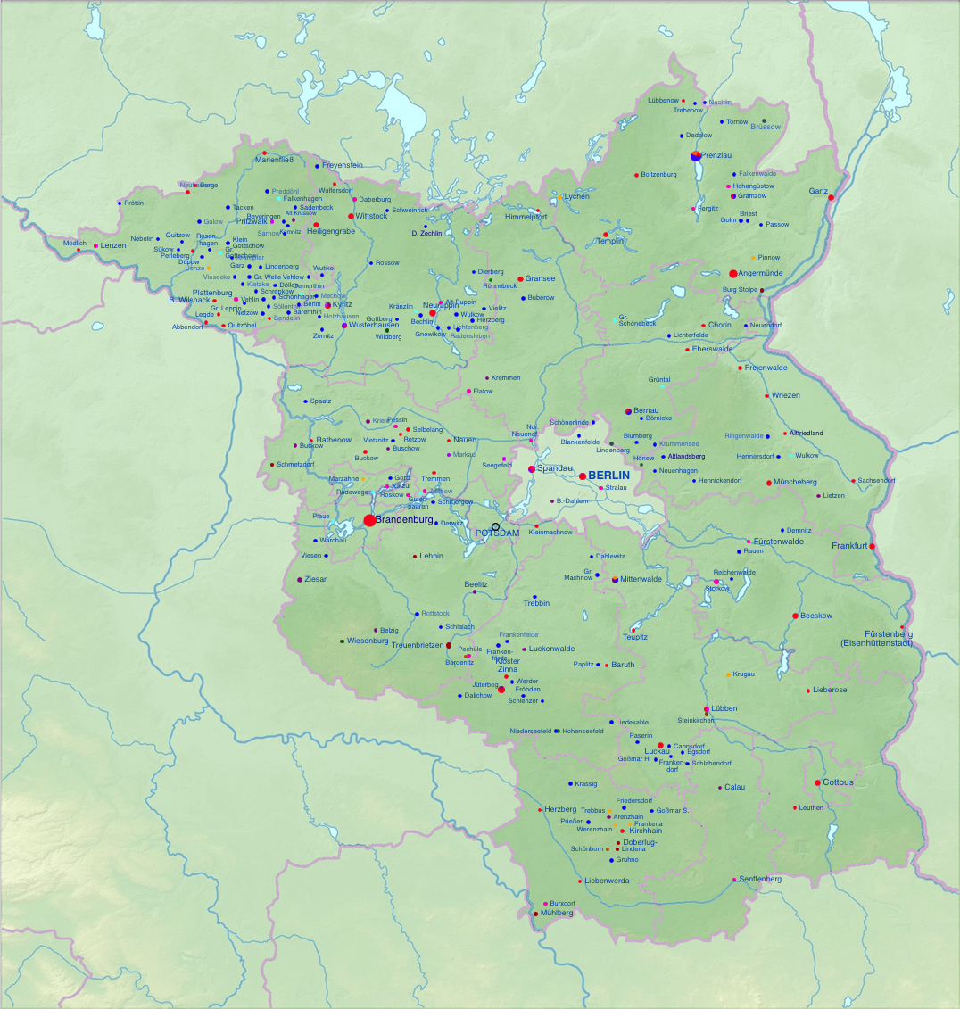 Detailed distribution of Brick gothic in the German state of Brandenburg